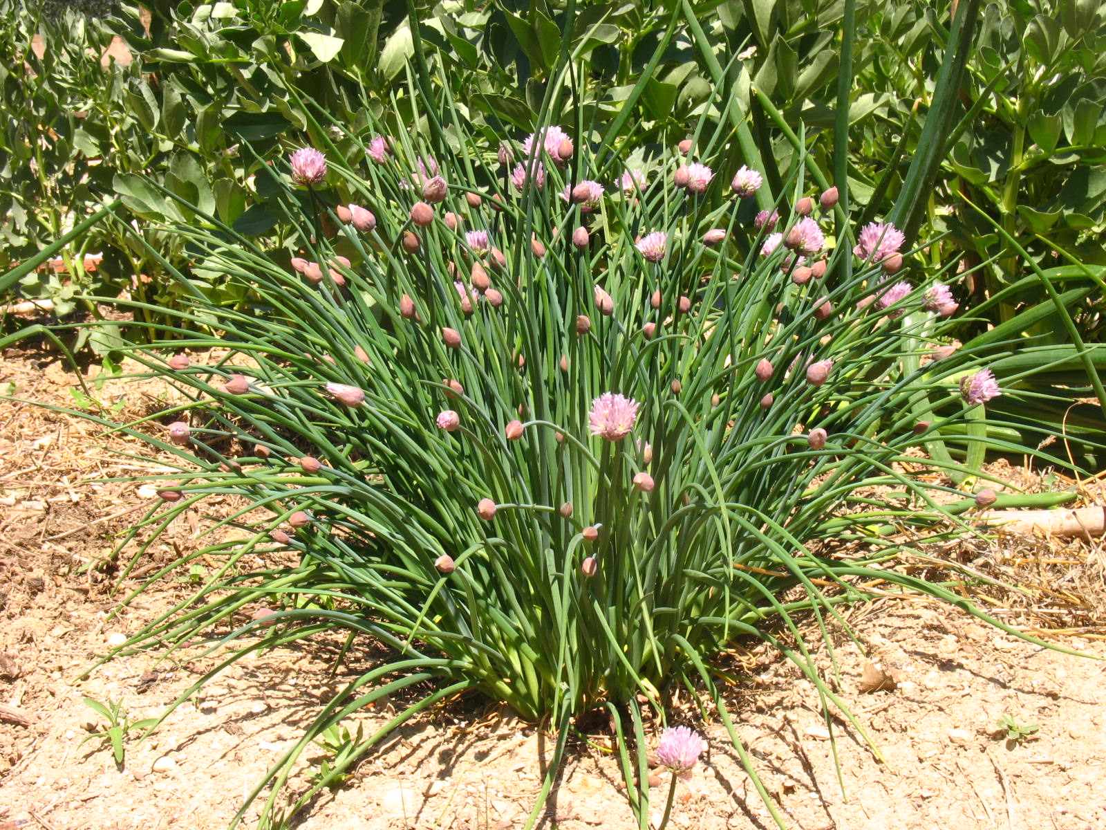 Allium schoenoprasum in flower, Piera, Catalunya, April 17th 2013